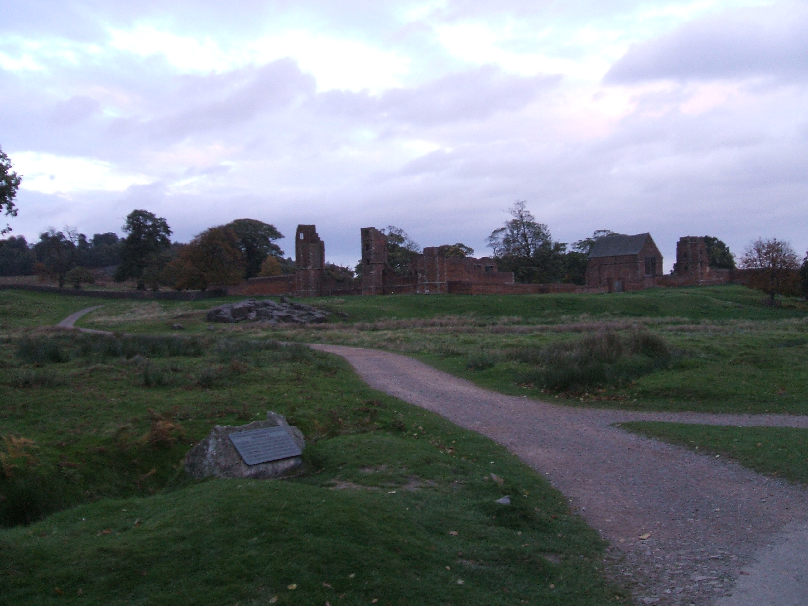 Bradgate, Newtown Linford